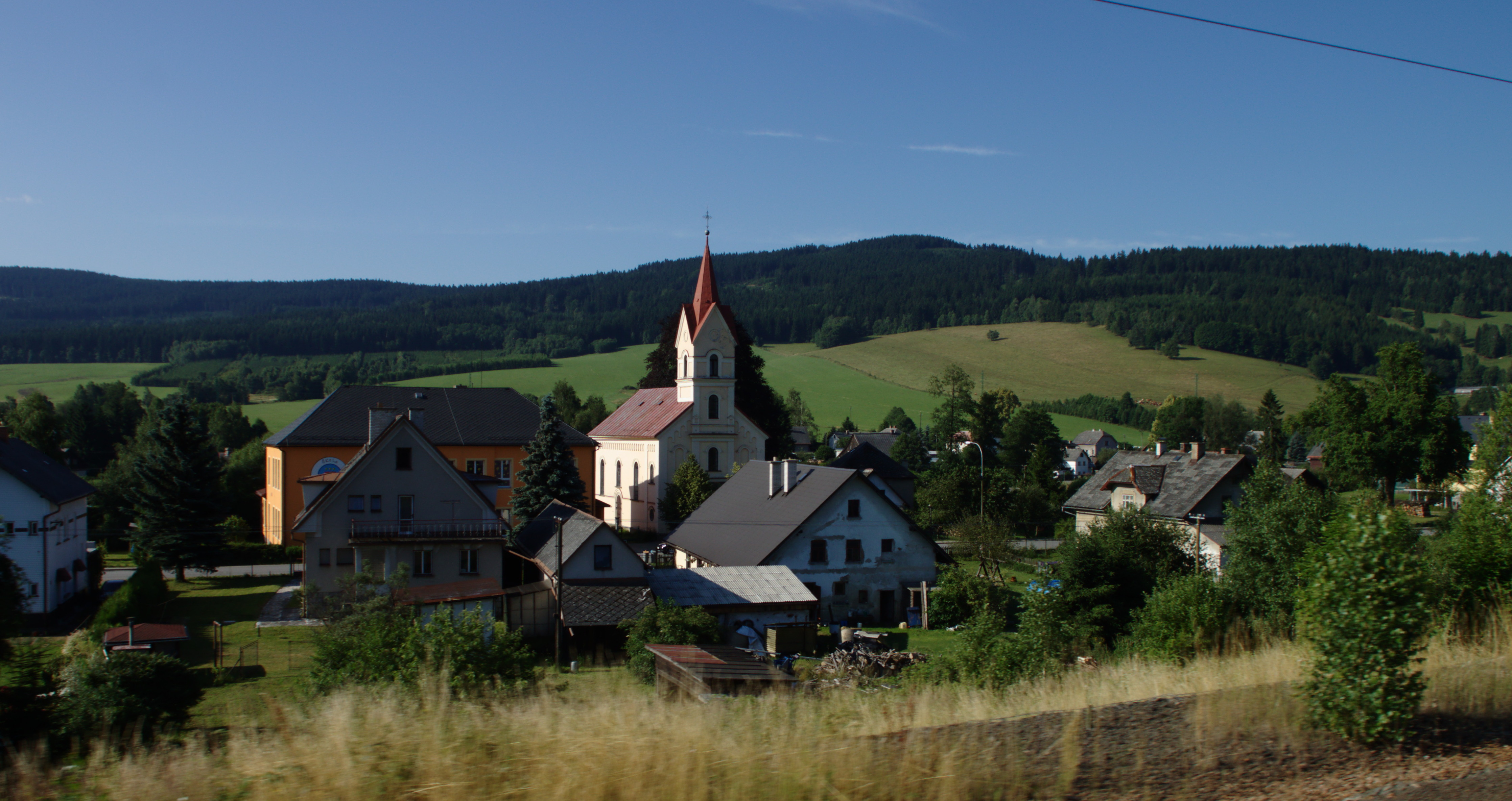 View of the town of Lichkov, Pardubice Region, CZ